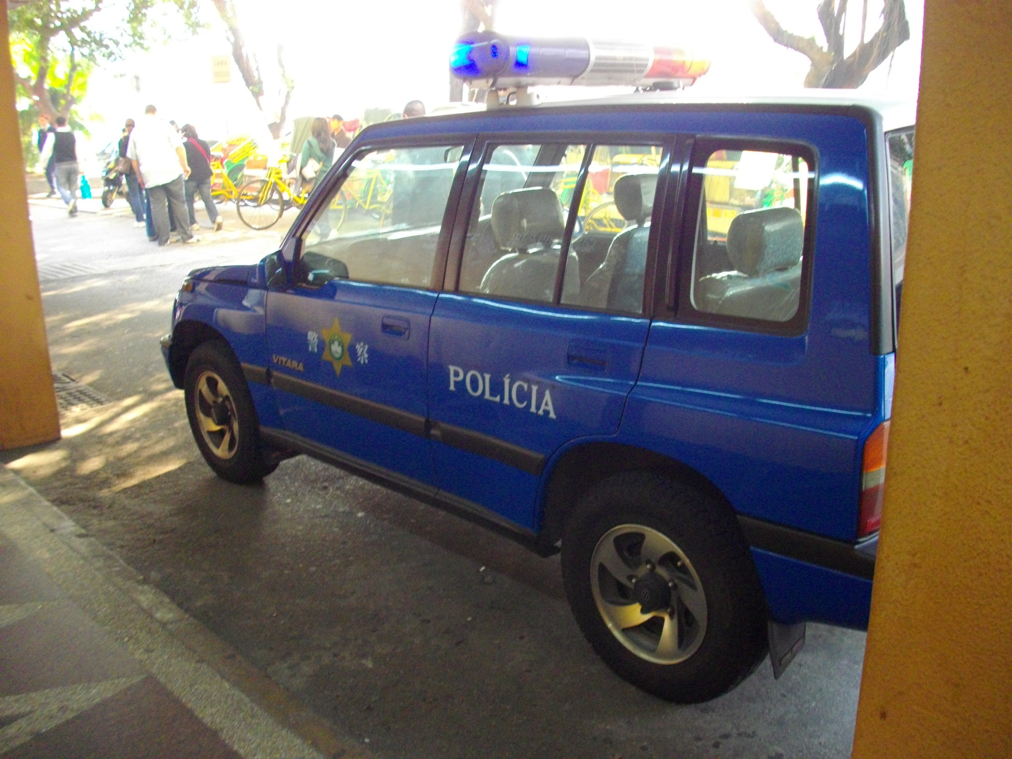 Police car in Macau